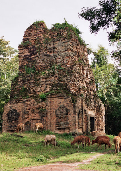 N16 Sanctuary. Sambor Prei Kuk. Cambodia